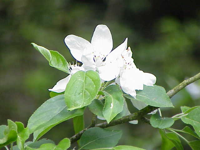 Species: Malus pumila Family: Rosaceae Image No. 1